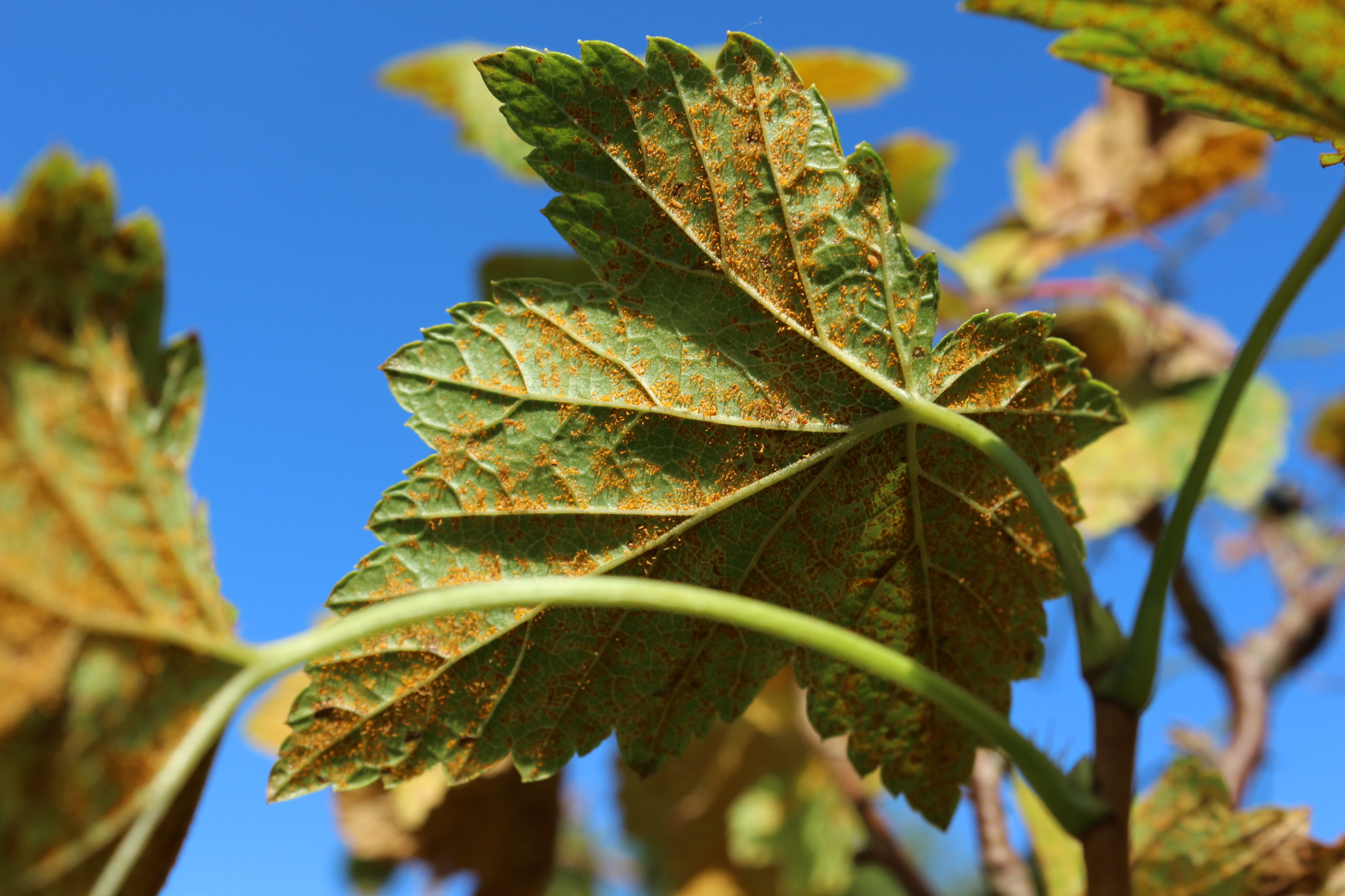 Cronartium ribicola fungus on leaves of Ribes nigrum